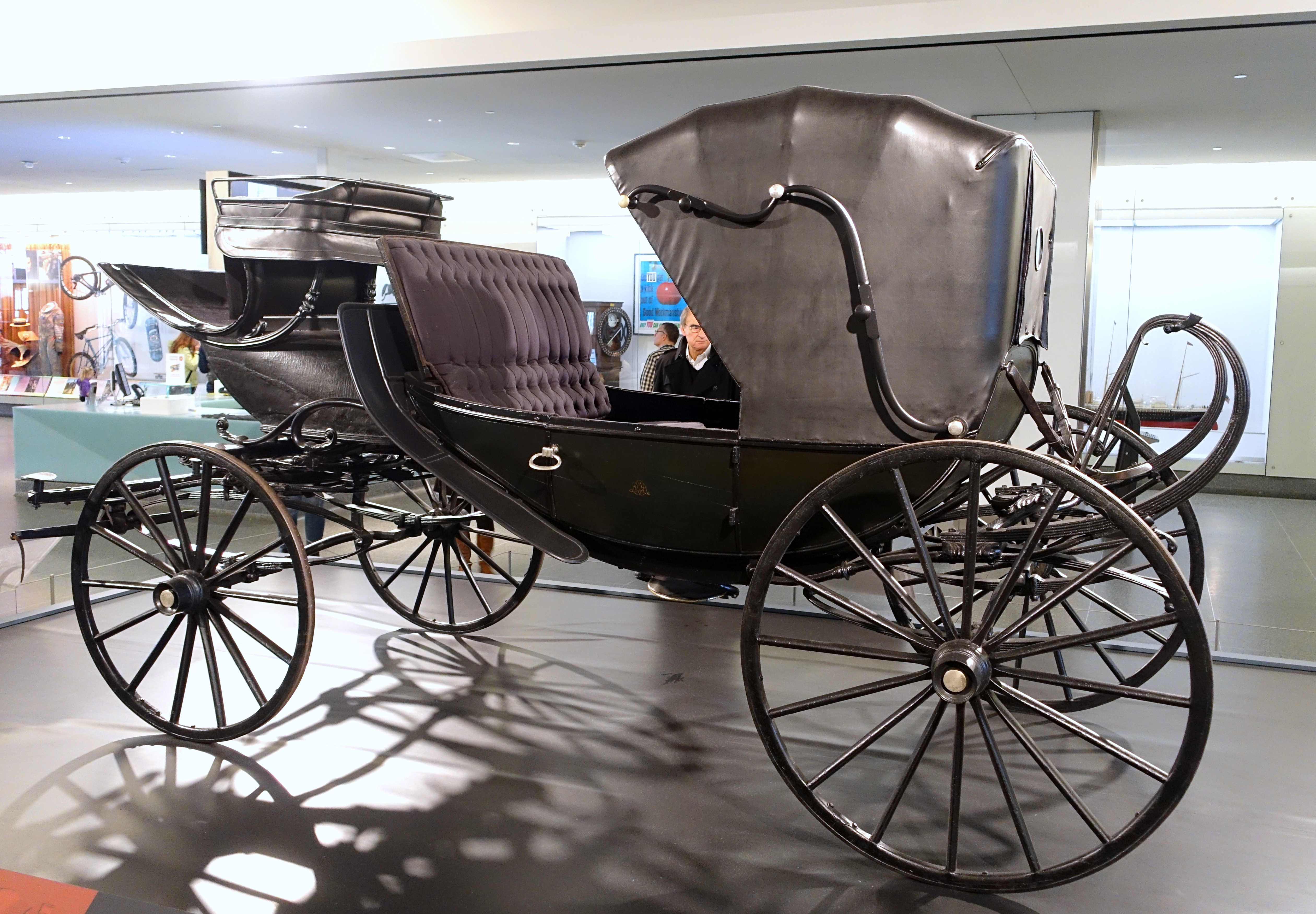 Exhibit in the National Museum of American History, Washington, DC, USA.